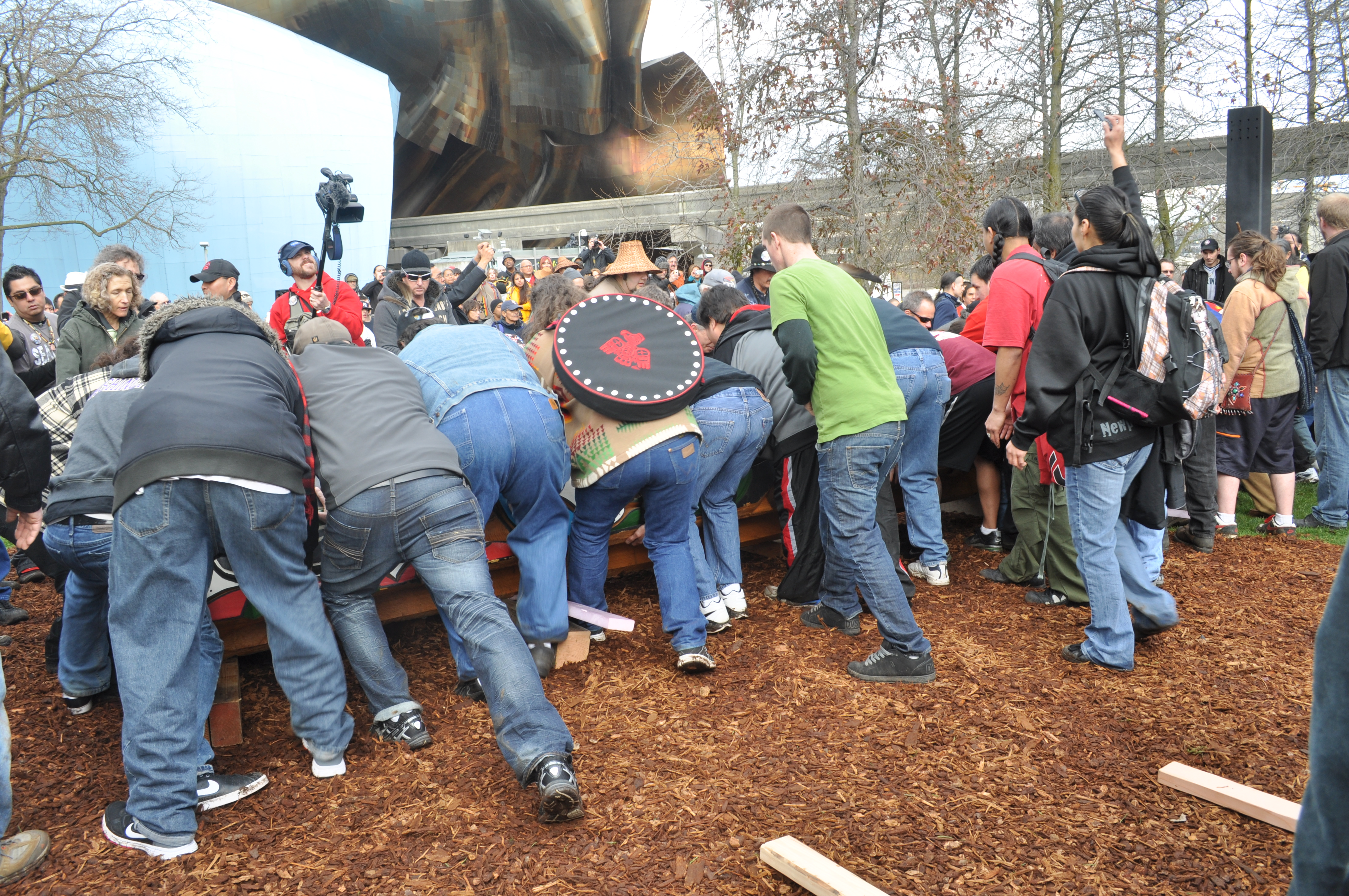 At the raising of the John T. Williams Memorial Totem Pole, Seattle Center, February 26, 2012. Turning the totem pole over 180 degrees, by hand, so that it would be face-down and could be pulled by ropes onto its support. Experience Music Project and monorail track in background. The black post at right is the support to which the hollow-backed totem pole would soon be attached. Part of Flickr set Raising the John T. Williams Memorial Totem Pole by Joe Mabel.